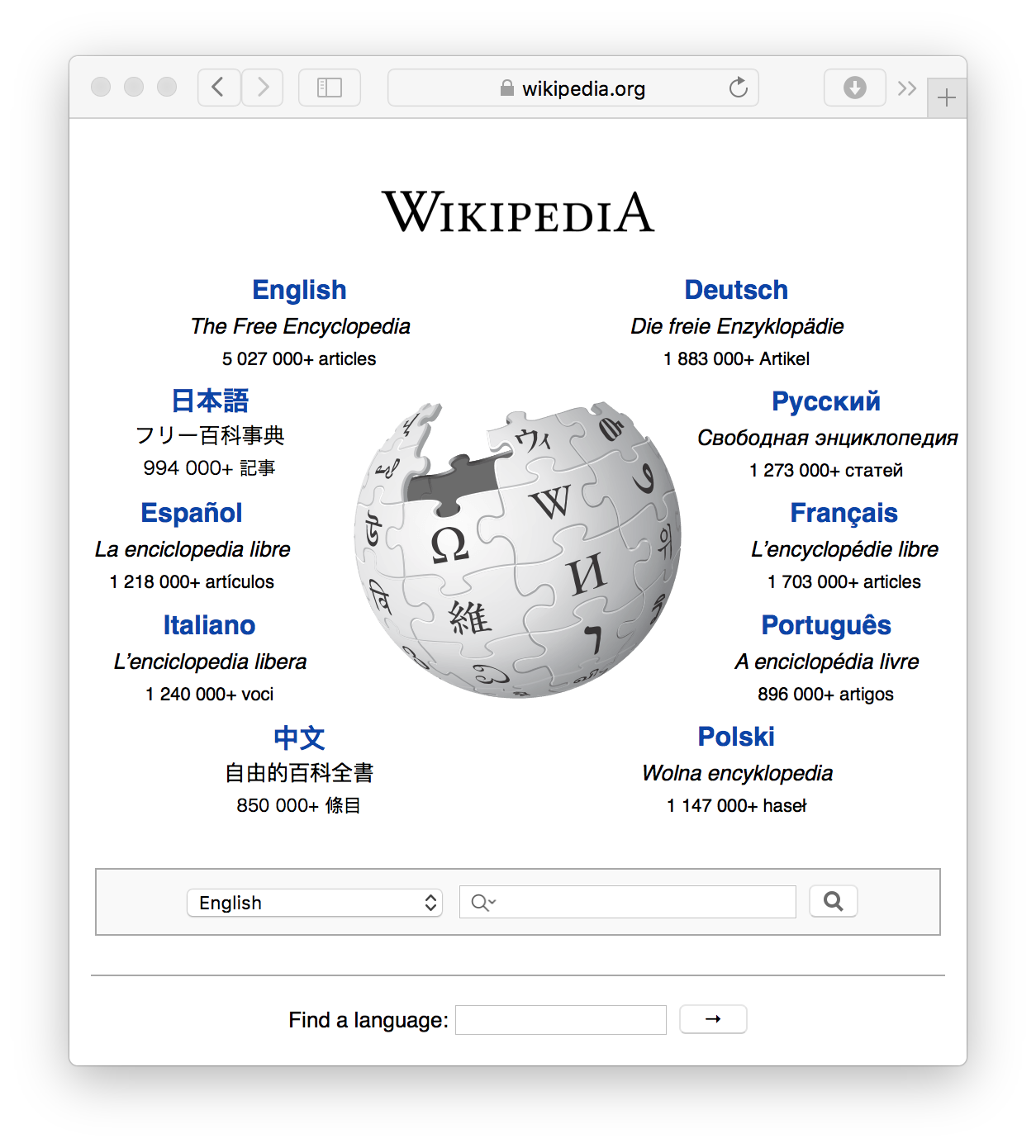 Screen capture of Homepage of Wikipedia